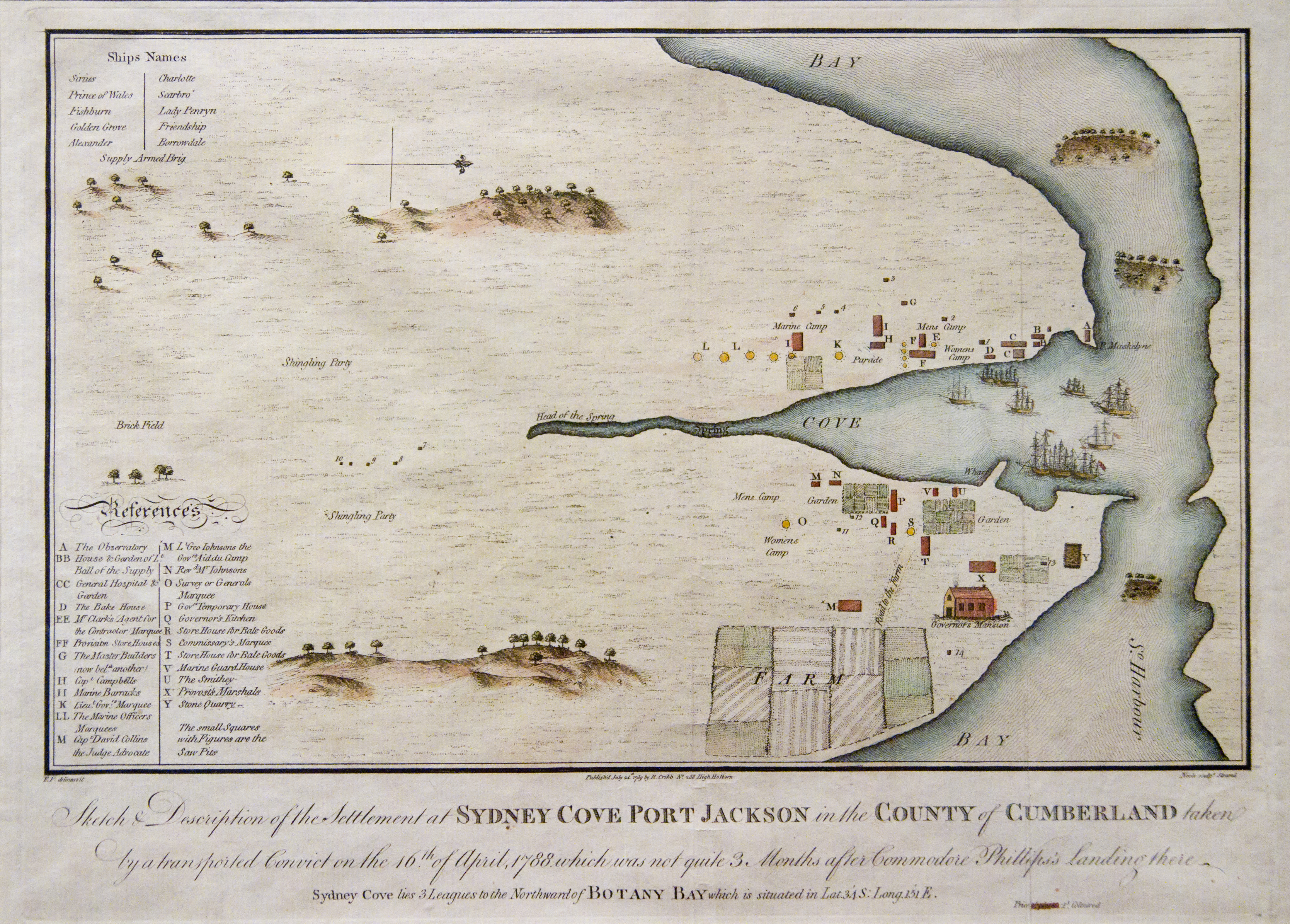 Sketch of Sydney Cove, Port Jackson in the County of Cumberland, 1789, National Library of Australia, Canberra, Australia